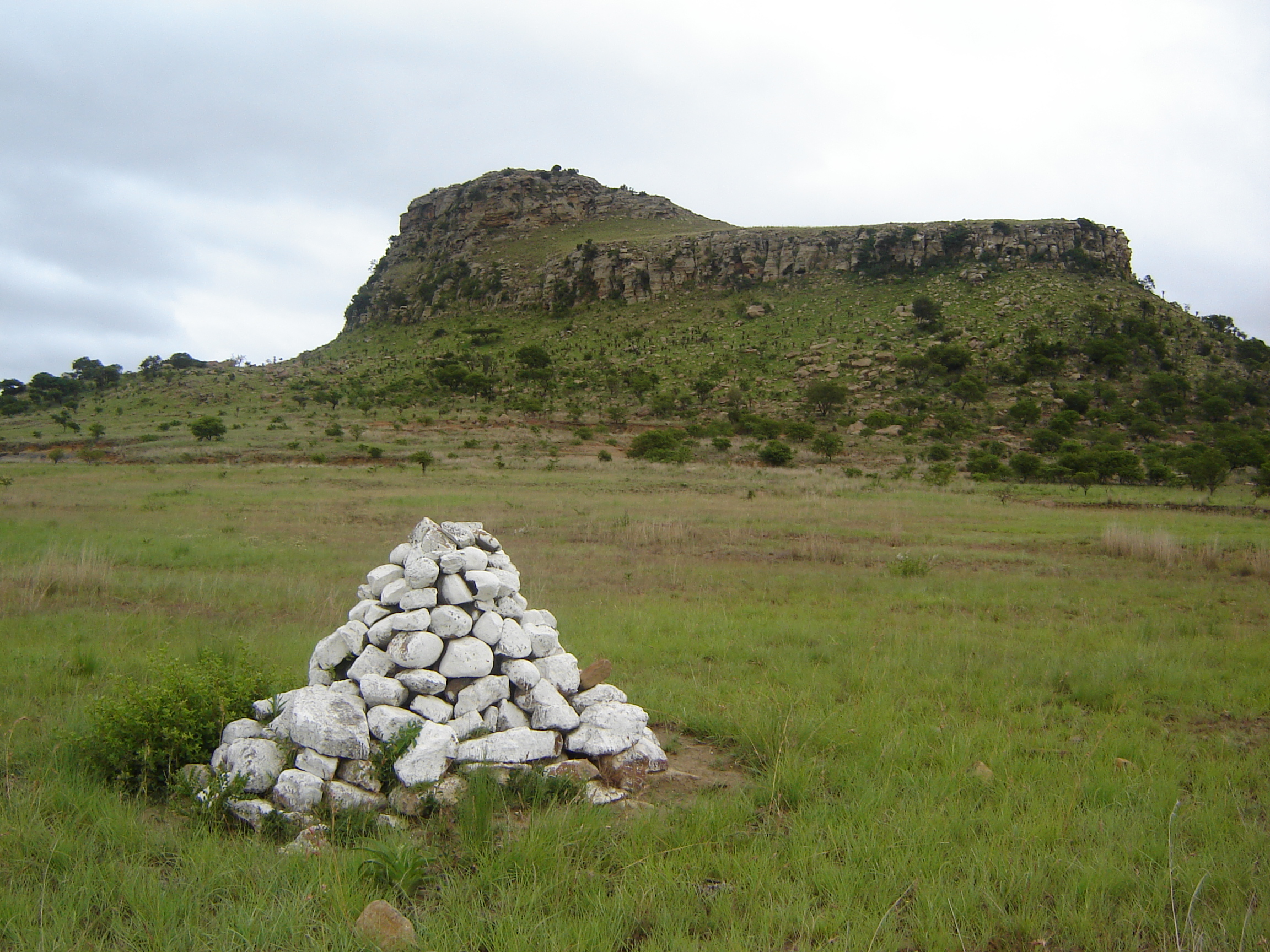 This is a photo of Isandlwana the hill in Kwazulu Natal, South Africa where the Battle of Isandlwana was fought. The rockpile in foreground is one of many marking the location of British mass graves at the site.